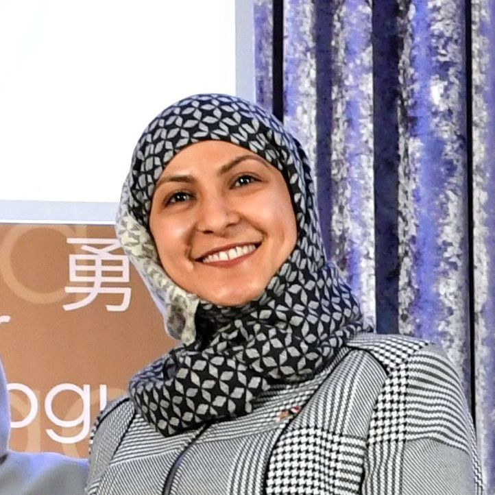 "First Lady Melania Trump presents the 2017 International Women of Courage Award to Fadia Najib Thabet of Yemen during a ceremony at the U.S. Department of State in Washington, D.C., on March 29, 2017. " "As a Child Protection Officer who reported on violations against children in conflict during the recent conflicts in southern Yemen, Fadia Najib Thabet faced death on a regular basis as she tried to protect the region's children from Al Qaeda and Houthi militias. Through her courageous work, she dissuaded young boys from joining Al Qaeda, exposed its Yemeni branch "Ansar al Sharia" as a recruiter of child soldiers, and documented for the United Nations Security Council cases of mining, abduction, rape, and other human rights violations by various armed groups. Thabet took the view that children recruited by extremists and militants were not criminals, but, victims. She worked with parents, schools, communities, the children themselves, and eventually the United Nations to develop an action plan in southern Yemen to save children from the war. Thabet continues to work on behalf of dispossessed and uprooted children with the American Refugee Committee." [1]